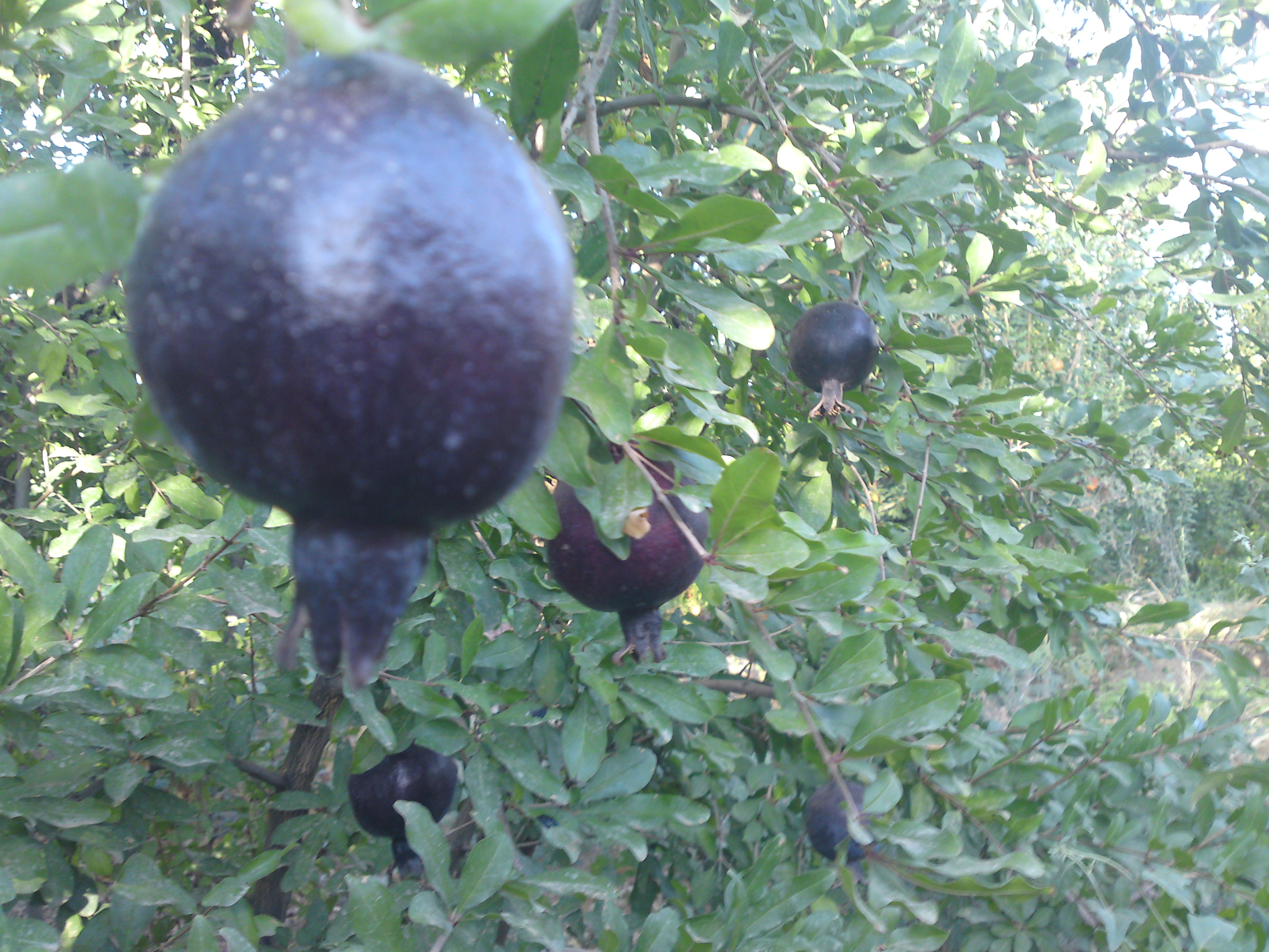 Pomegranate Black - Saveh